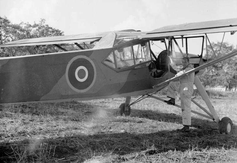 Royal Air Force Air Vice Marshal Harry Broadhurst, Air Officer Commanding the Desert Air Force, about to board his Fieseler Fi 156 C Storch at the Advanced Headquarters of the DAF at Lucera, Italy. Broadhurst acquired the captured German communications aircraft in North Africa, had it painted in British markings and used it for touring the units under his command. He continued flying the Storch while commanding the 2nd Tactical Air Force in North-West Europe.